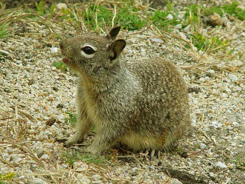 Description Spermophilus beecheyi, California Ground Squirrel. Date May 25, 2002 Location Monterey Bay, California Photographer Franco Folini